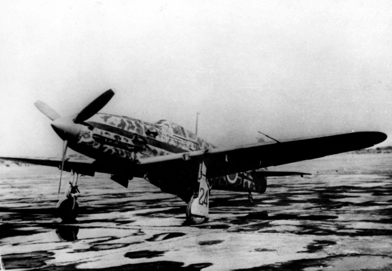 Front veiw of an Imperial Japanese Army Air Force Kawasaki Ki-61 Hien (Allied code name "Tony") with a camouflage paint scheme at an unidentified airfield.